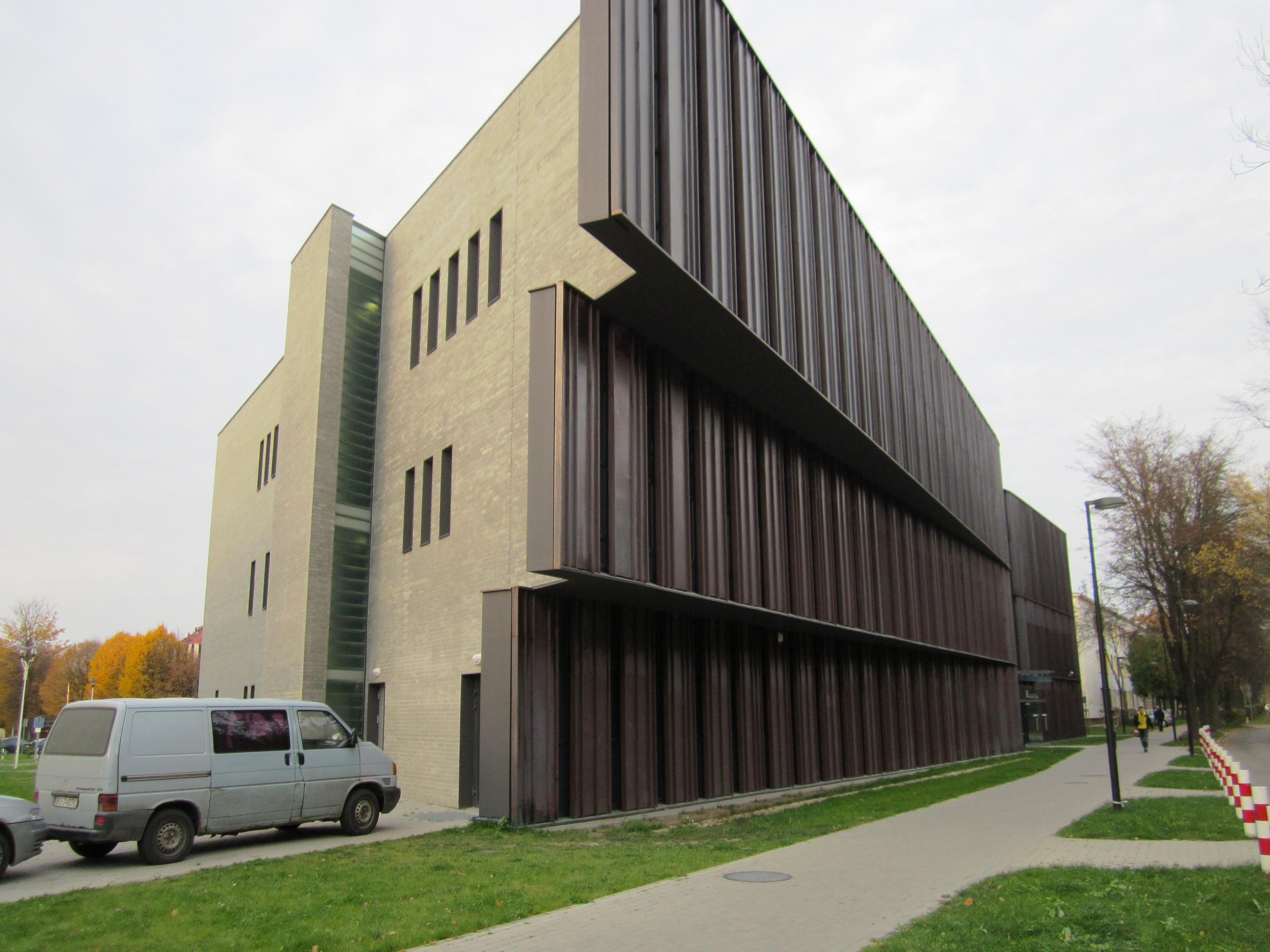 University of Białystok, 20 Świerkowa street. Faculty of Pedagogy and Psychology